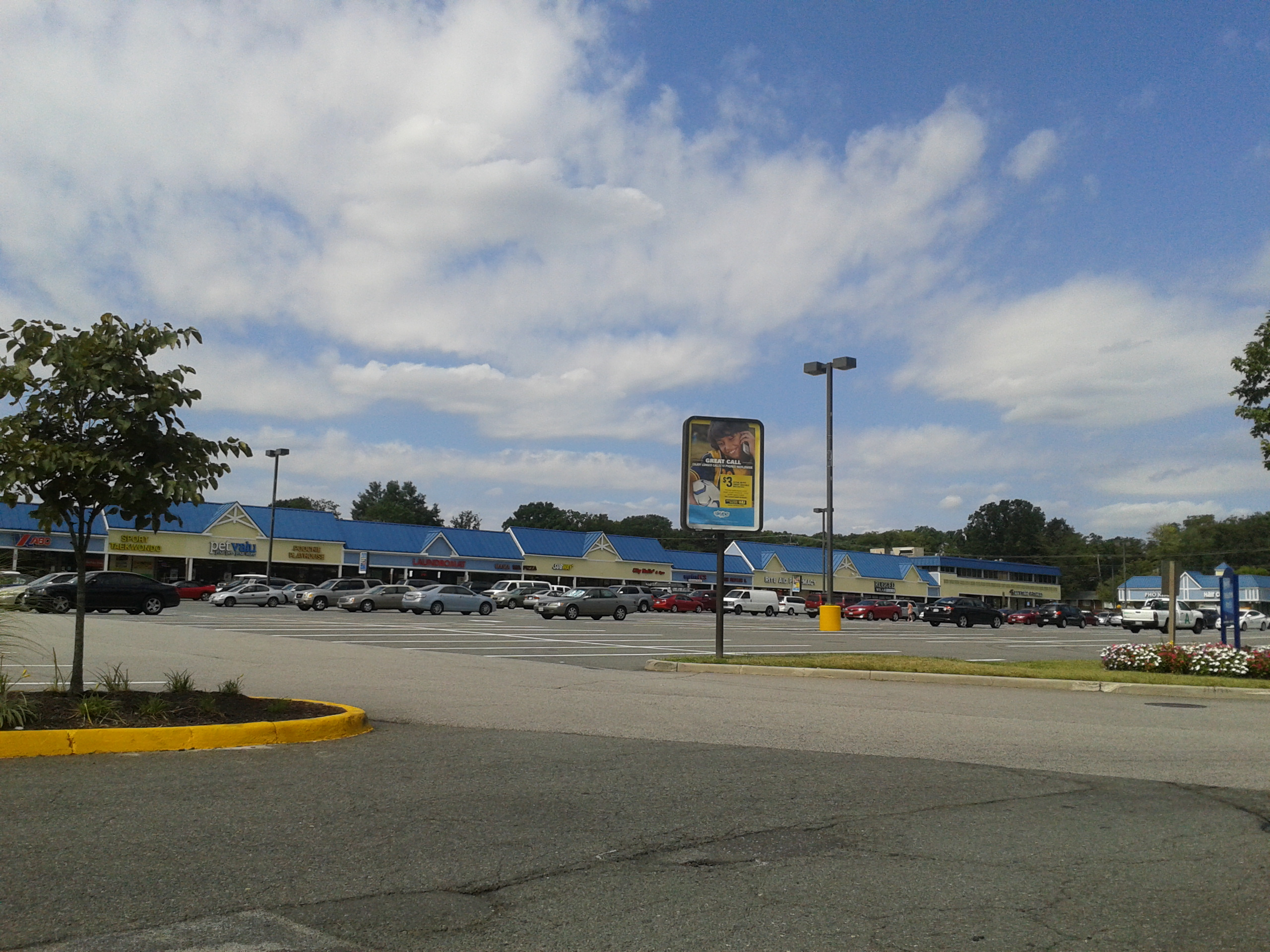 Shopping plaza at Rose Hill, Virginia